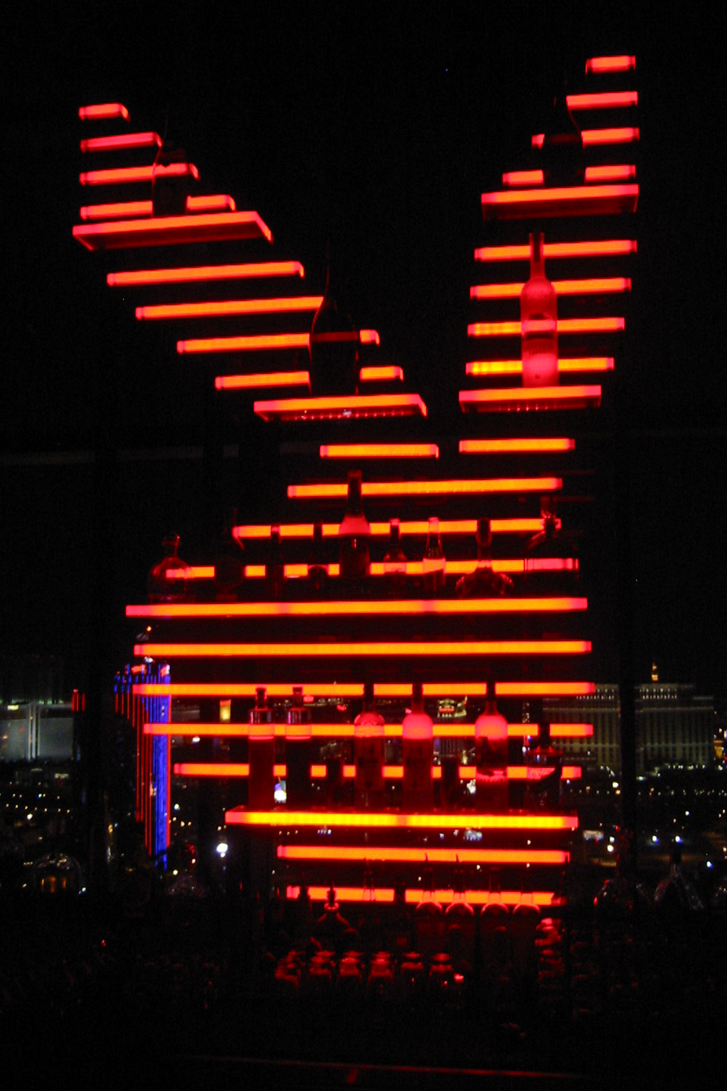 Nice lighting in front of the window at the Playboy Club at the top of the Palms hotel in Vegas. You can see a few of the casino's in the distance beyond the glass.